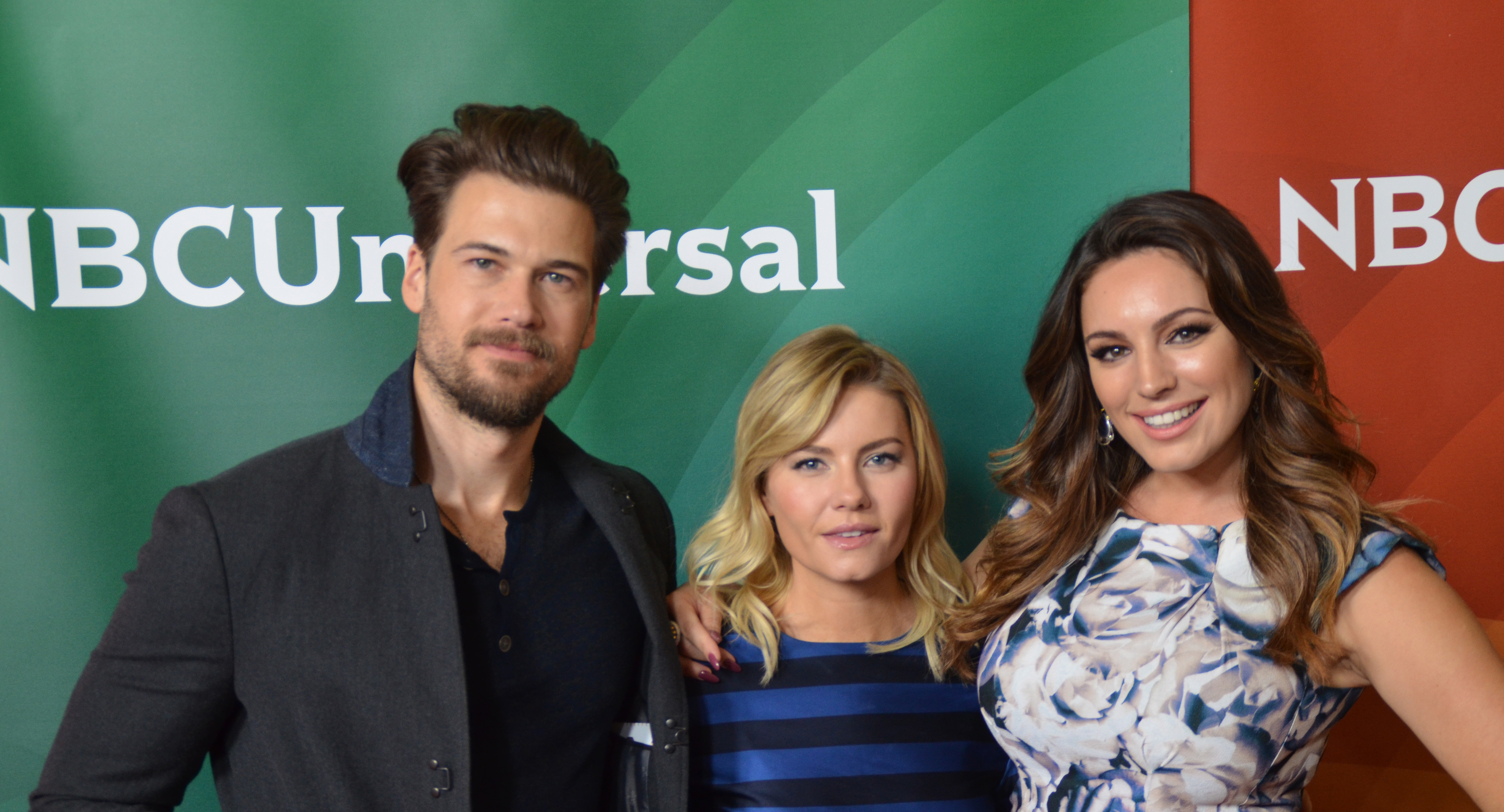 Nick Zano, Elisha Cuthbert and Kelly Brook at the 2015 Television Critics Association’s Press Tour (TCA2015) for the NBC Universal TV show announcements, interviews with cast and creators at The Langham Huntington Hotel in Pasadena, CA